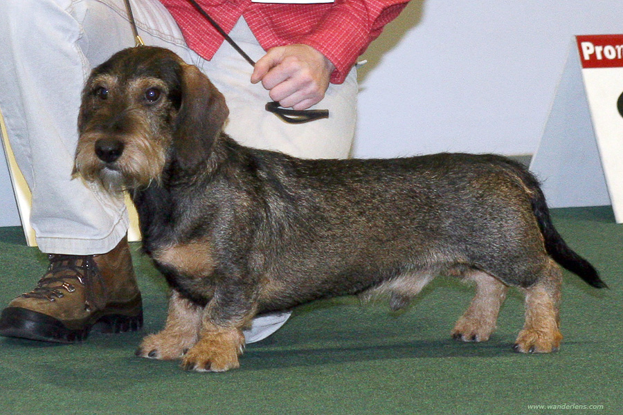 Wire-haired dachshund TRACK-ACTION Ålle